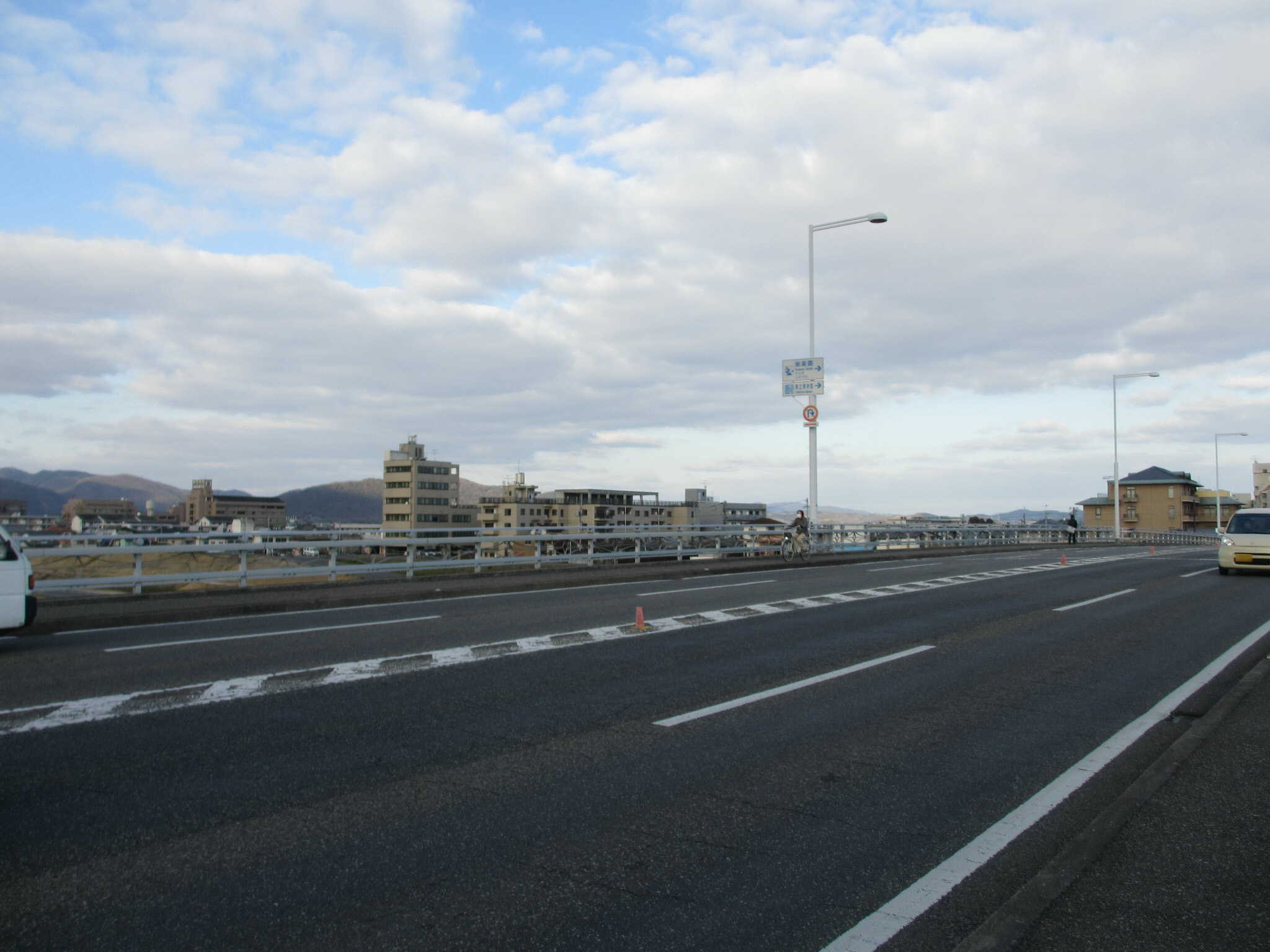 Shin Tsurumi Bridge of Okayama Prefectural Road Route 402